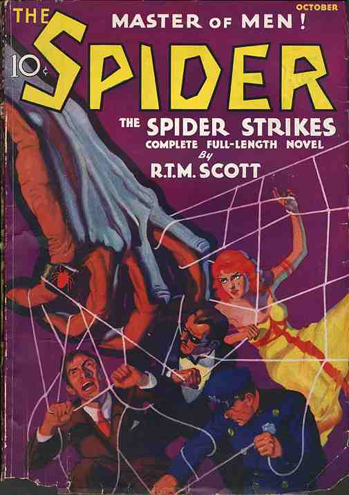 Cover of the pulp magazine The Spider (October 1933, vol. 1, no. 1) featuring The Spider Strikes by R. T. M. Scott. Cover by Walter Baumhofer. The first issue of the pulp magazine.